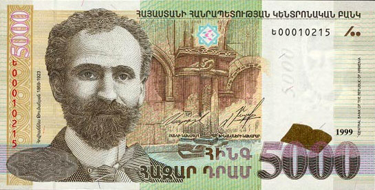 5000 dram 1999